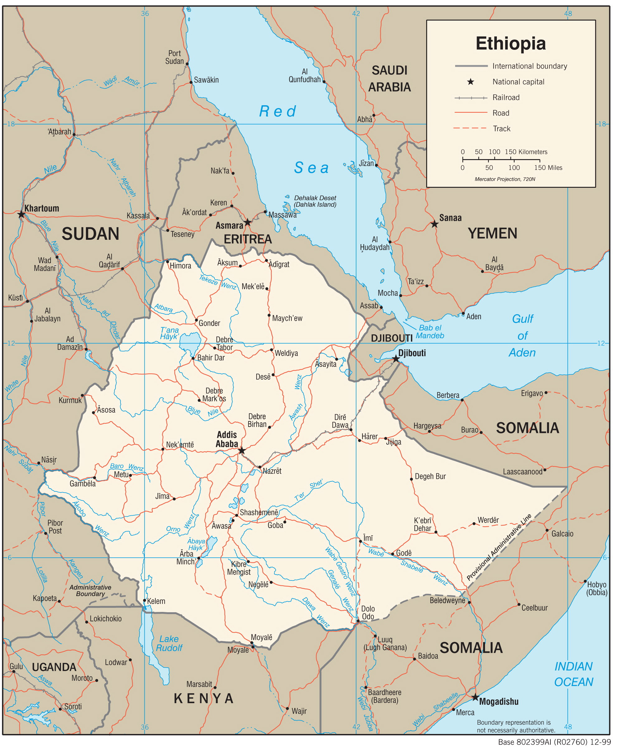 Transport system in Ethiopia, 2000.